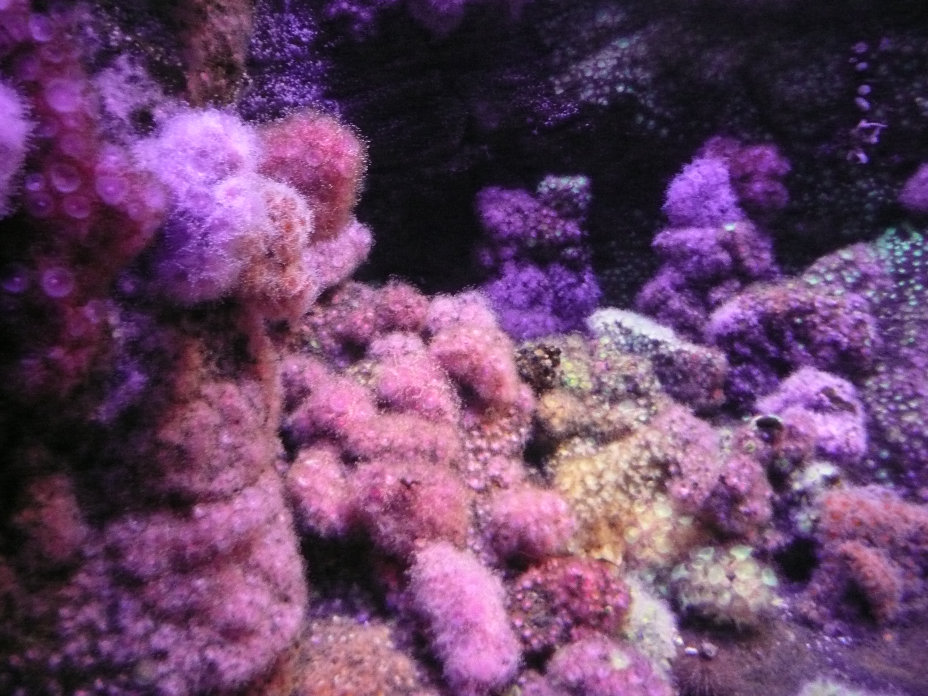 Corynactis viridis in the Aquarium de La Rochelle